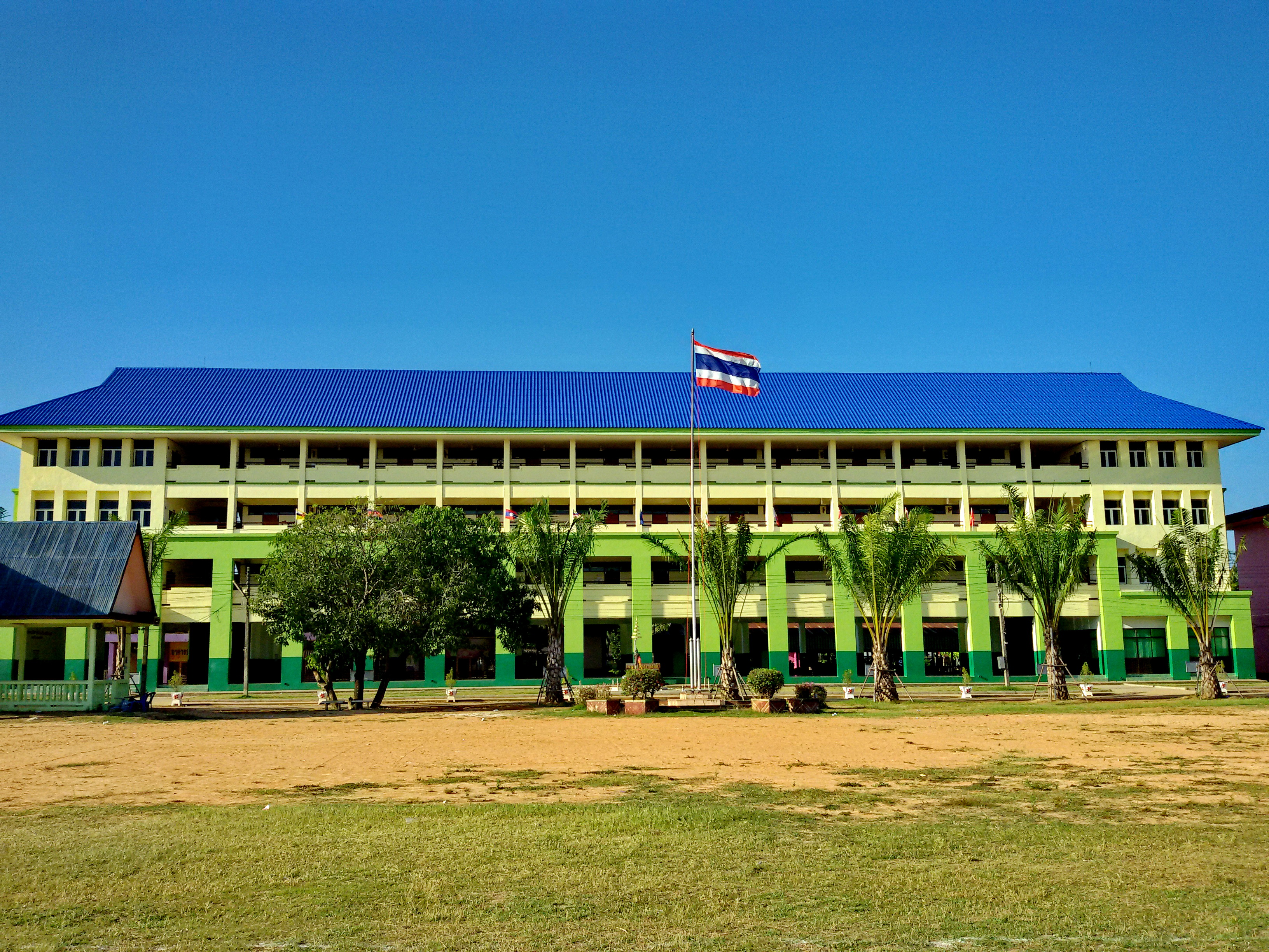 โรงเรียนอนุบาลวัดสระแก้ว โรงเรียนระดับอนุบาล-ประถมศึกษา ตั้งอยู่ข้างวัดสระแก้ว พระอารามหลวง ถนนสุวรรณศร ต.สระแก้ว อ.เมืองสระแก้ว จ.สระแก้ว